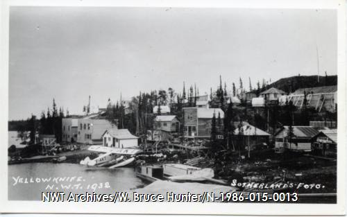 Yellowknife N.W.T. 1932. Sutherland's Foto. [Postcard of Yellowknife, view of Latham Island from Back Bay looking east. Sam Otto Theatre, Corona Inn, Sutherland's Drugs are visible. Produced by Sutherland Foto] This image is available from the NWT archives under the reference number W. Bruce Hunter fonds/N-1986-015: 0013This tag does not indicate the copyright status of the attached work. A normal copyright tag is still required. See Commons:Licensing for more information. English | français | +/−